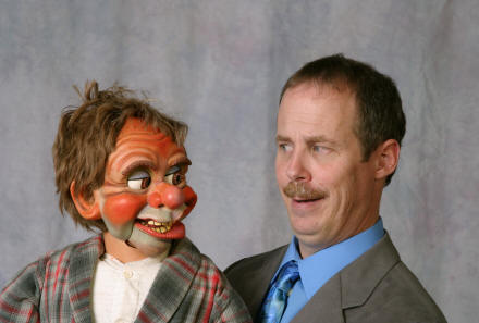 Tenido que ver el 23 de abril de 1961 en Colinas de Misión, California. El Lopez ha construido una carrera acertada encontrando el humor en su infancia difícil y en el estilo de vida de comunidad mejicano americano. Antes de finales de los años 1980, Lopez era un cómico acertado, jugando clubes por todo el país y pareciendo por la televisión muestra y trenes especiales de comedia. Él hizo el salto a películas en los años 1990 con comedias como la Patrulla de Esquí. además de su carrera de televisión, Lopez sigue funcionando como un soporte cómico y registrar álbumes de comedia. El Líder de Equipo fue denominado por el Premio de Grammy 2004 para el Mejor Álbum de Comedia. Él también escribió una autobiografía autorizada Por qué Usted Llanto, que fue publicado que mismo año.él también tenía fue a través de una enfermedad en 2005 wich era un trato grande.que hizo que sus riñones se deterioraran, Lopez recibió un trasplante de riñón ese año. Su esposa Ann era el donante.